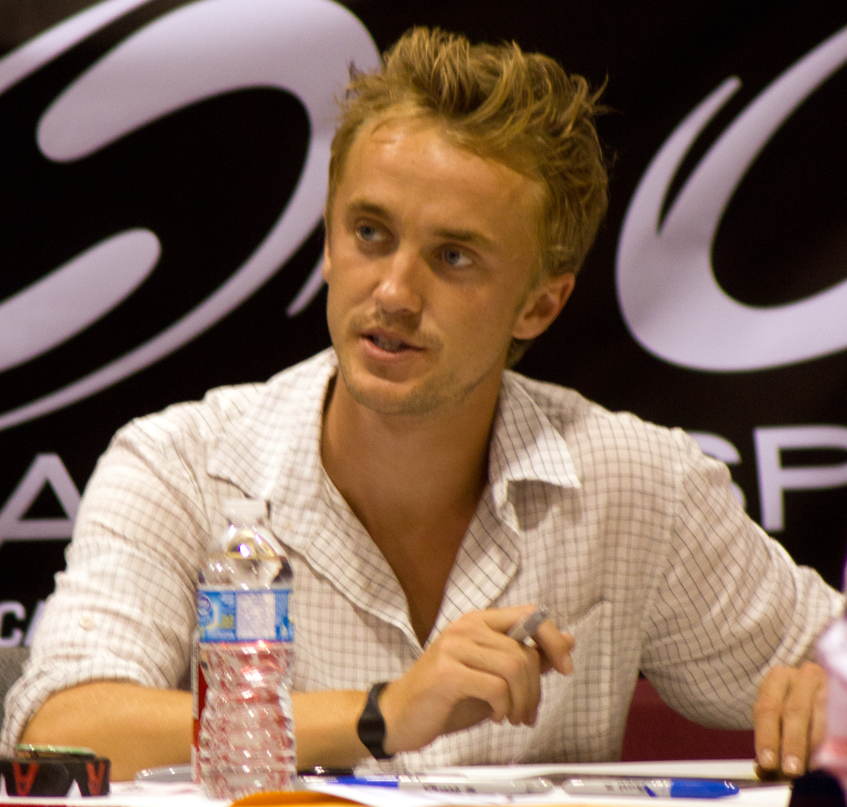 Tom Felton at Fan Expo 2011 in Toronto.